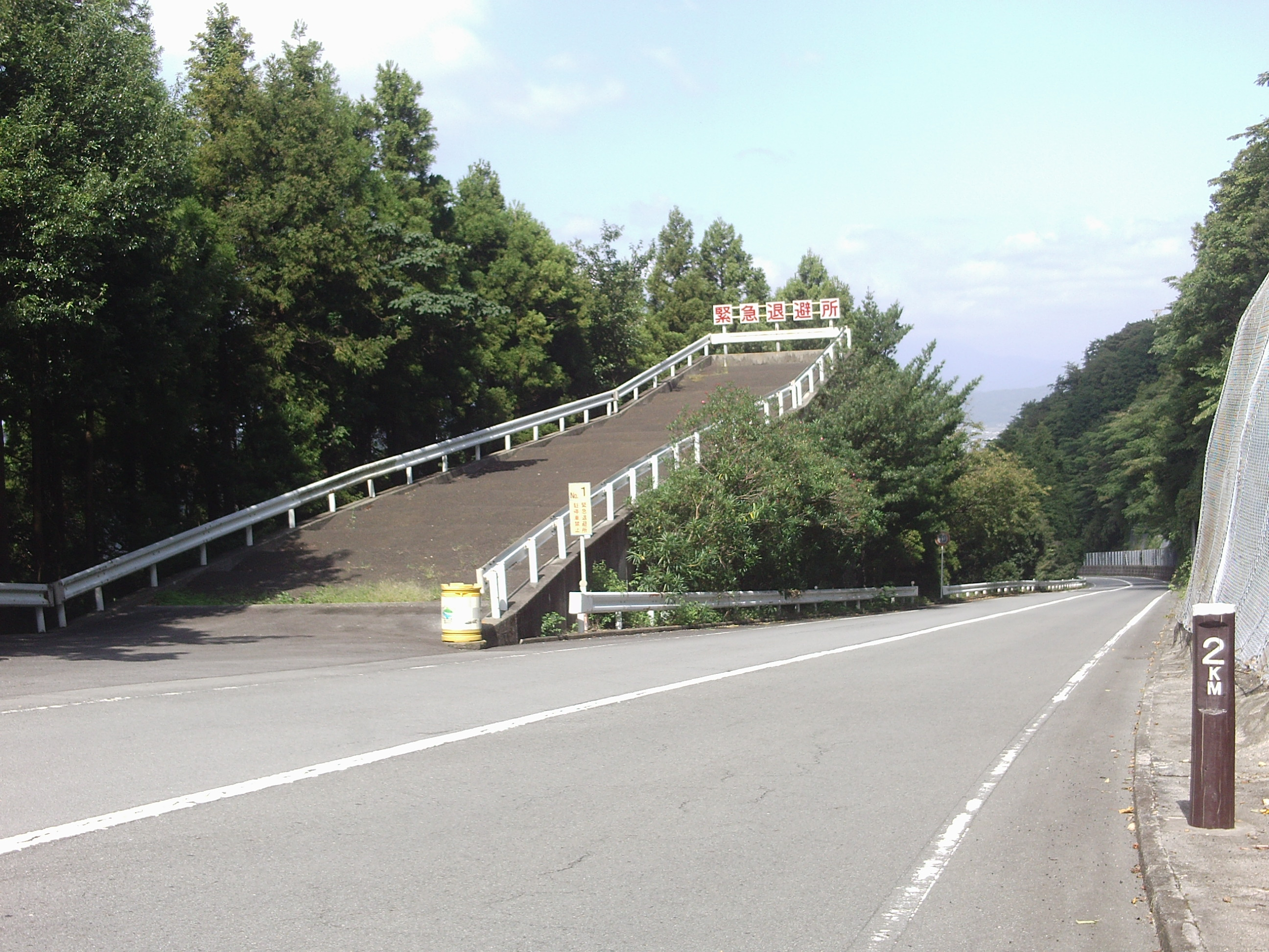 Emergency refuge place for vapor lock car. At the Hakone Turnpike.